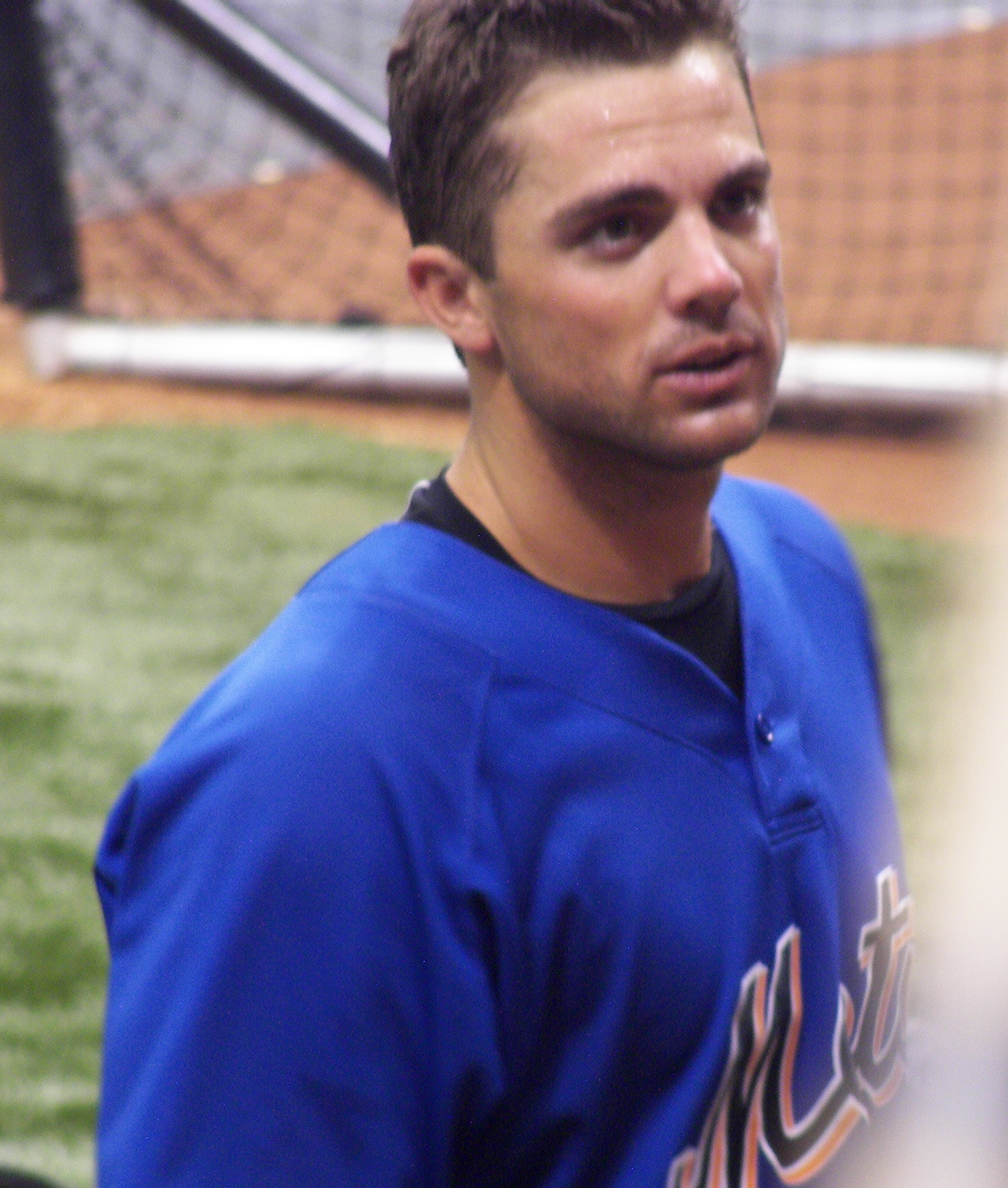 New York Mets third baseman David Wright before a Mets/Devil Rays spring training game at Tropicana Field in St. Petersburg, Florida.